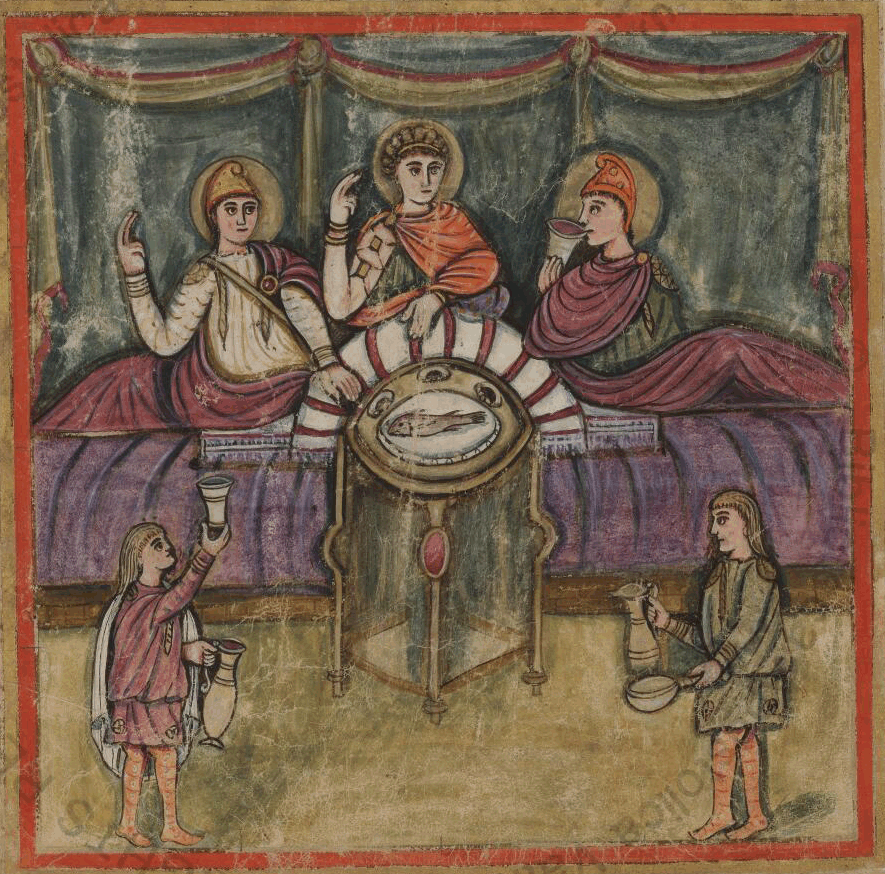 Dido and Aeneas recline at dinner.